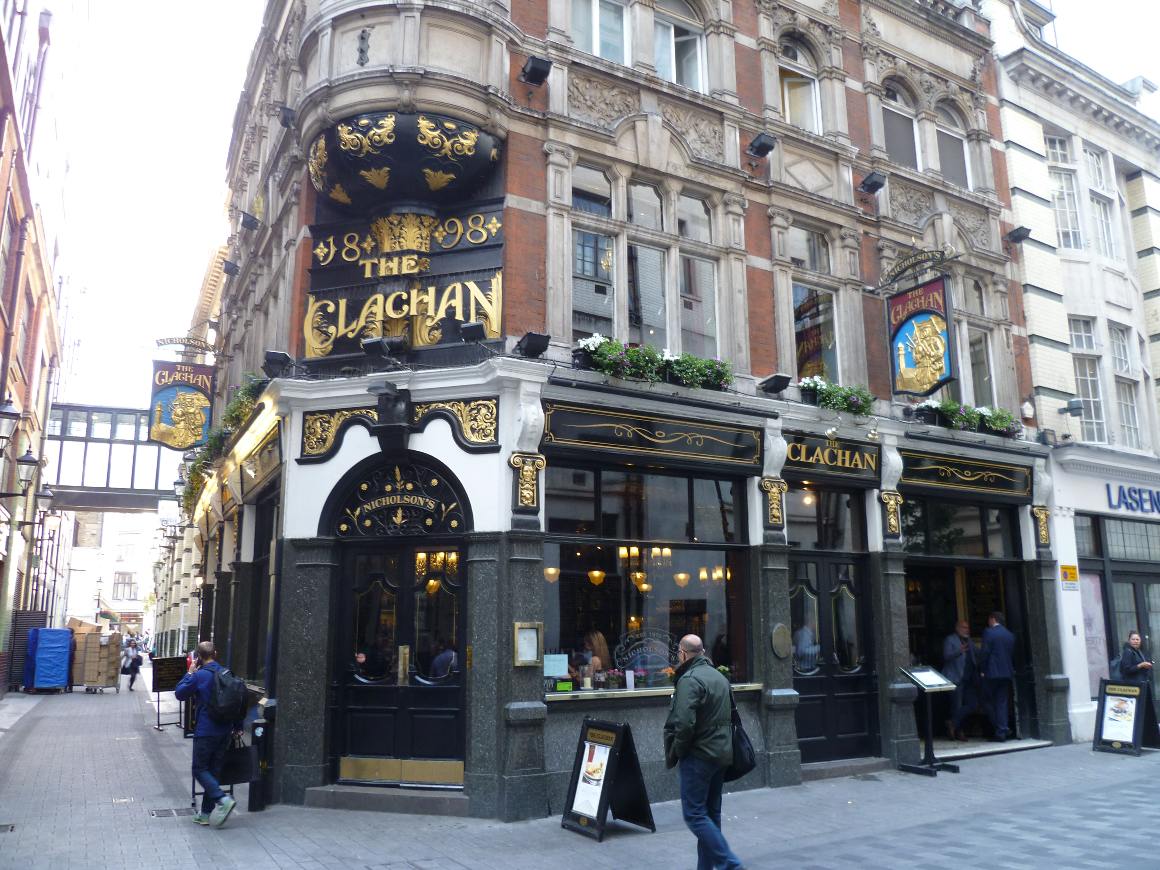 The Clachan pub London 1898